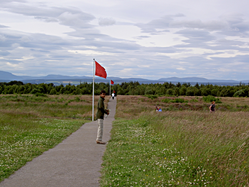 Culloden battlefield, Scotland, in July 2008. The british line